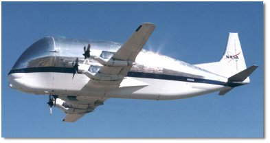 A Aero Spacelines Super Guppy in flight. Specfic Aircraft shown is owned by Nasa